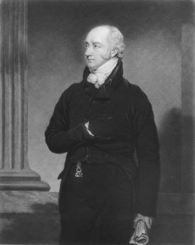 George Canning, Prime Minister